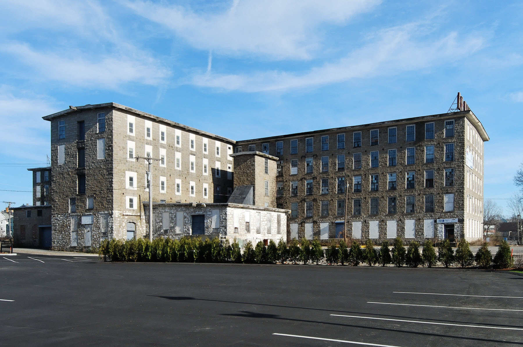 Wampanoag Mill No. 2, Fall River, Massachusetts Built in 1877.